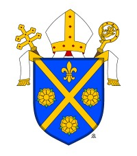 Coat of arms of Košice diocese